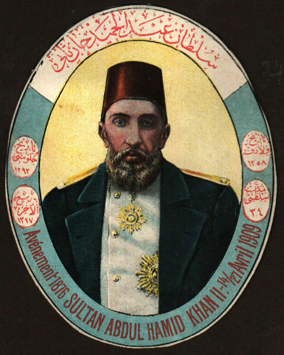 Abdul Hamid II